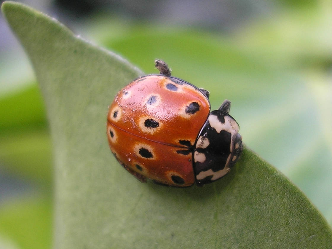 Eyed ladybird| (Anatis ocellata). Quite damaged specimen, two leggs missing completely, one legg half gone and right shield damaged. Location: Hengelo (Overijssel, Netherlands (found on windshield of a car) --- nl: Oogvleklieveheersbeestje (Anatis ocellata) Locatie: Hengelo (Overijssel, NL - (op voorruit van auto) --- de: Augenmarienkäfer oder Augenfleck-Marienkäfer (Anatis ocellata) --- fr: Coccinelle ocellée (Anatis ocellata)